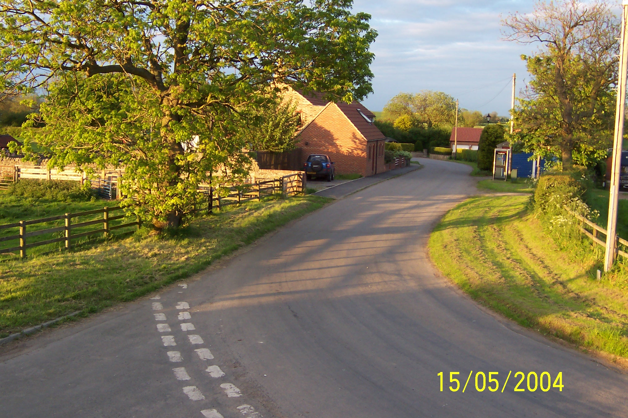 Streetlam Centre near sunset, MAY 2004. Picture taken by me, May 2004